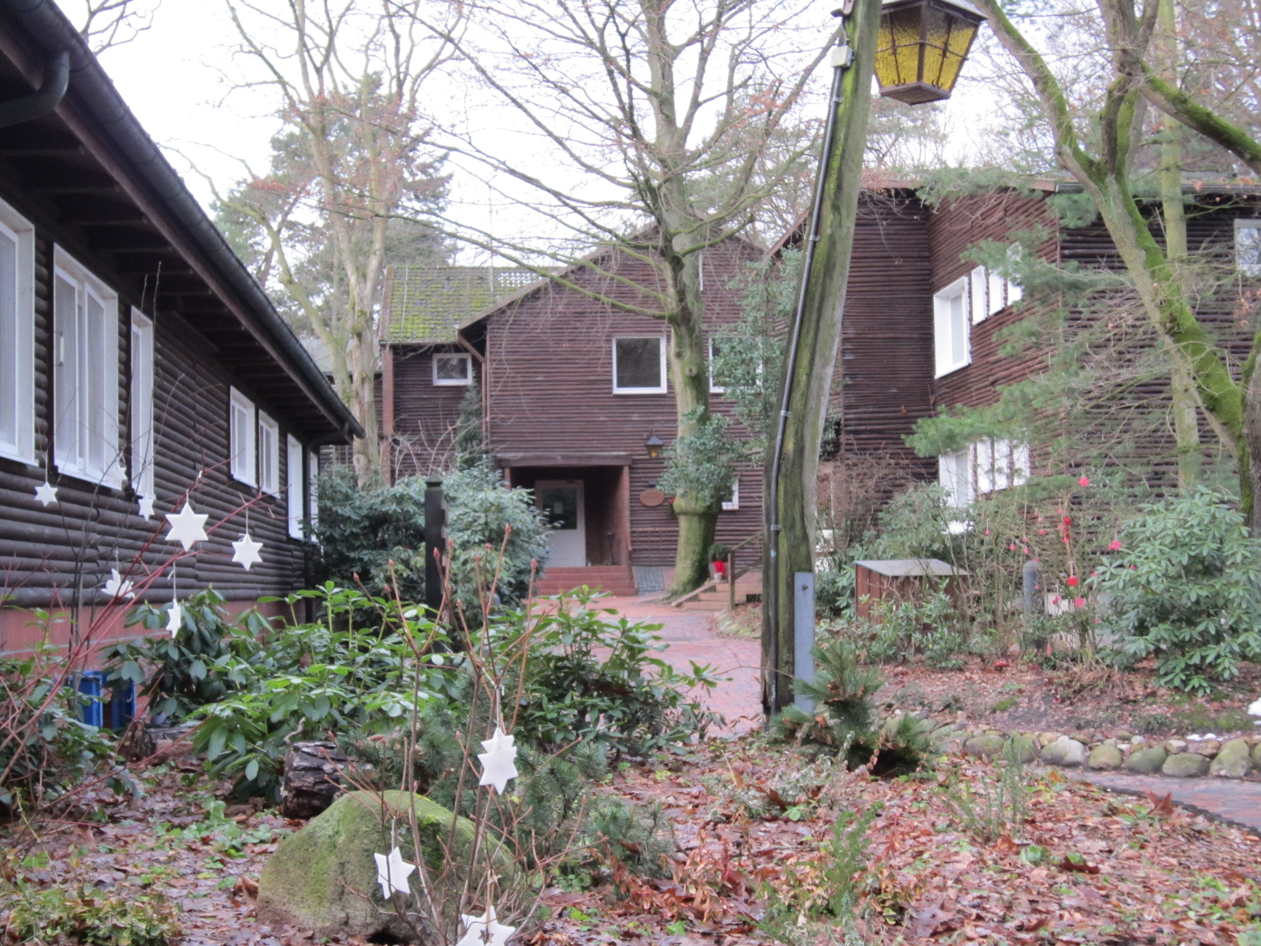 "Blockhaus Ahlhorn" - youth meeting-point of the Oldenburg State Protestant Church